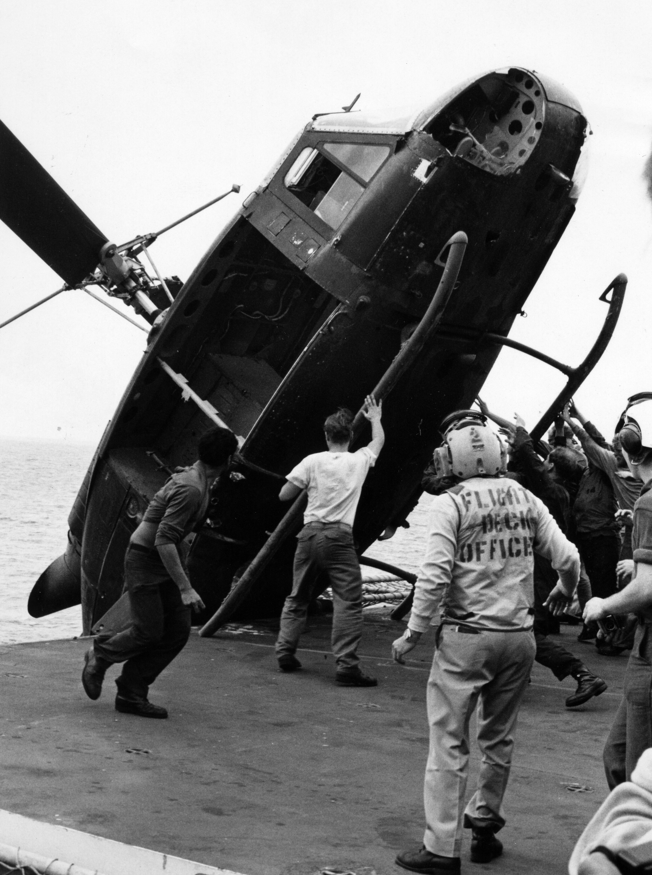 A South Vietnamese helicopter is pushed over the side of the USS Okinawa during Operation Frequent Wind, April 1975. The helicopter, which carried two Vietnamese officers, a woman and two children, had to be disposed of to make room for the extensive Marine Corps helicopter operation helping to evacuate the city of Saigon.